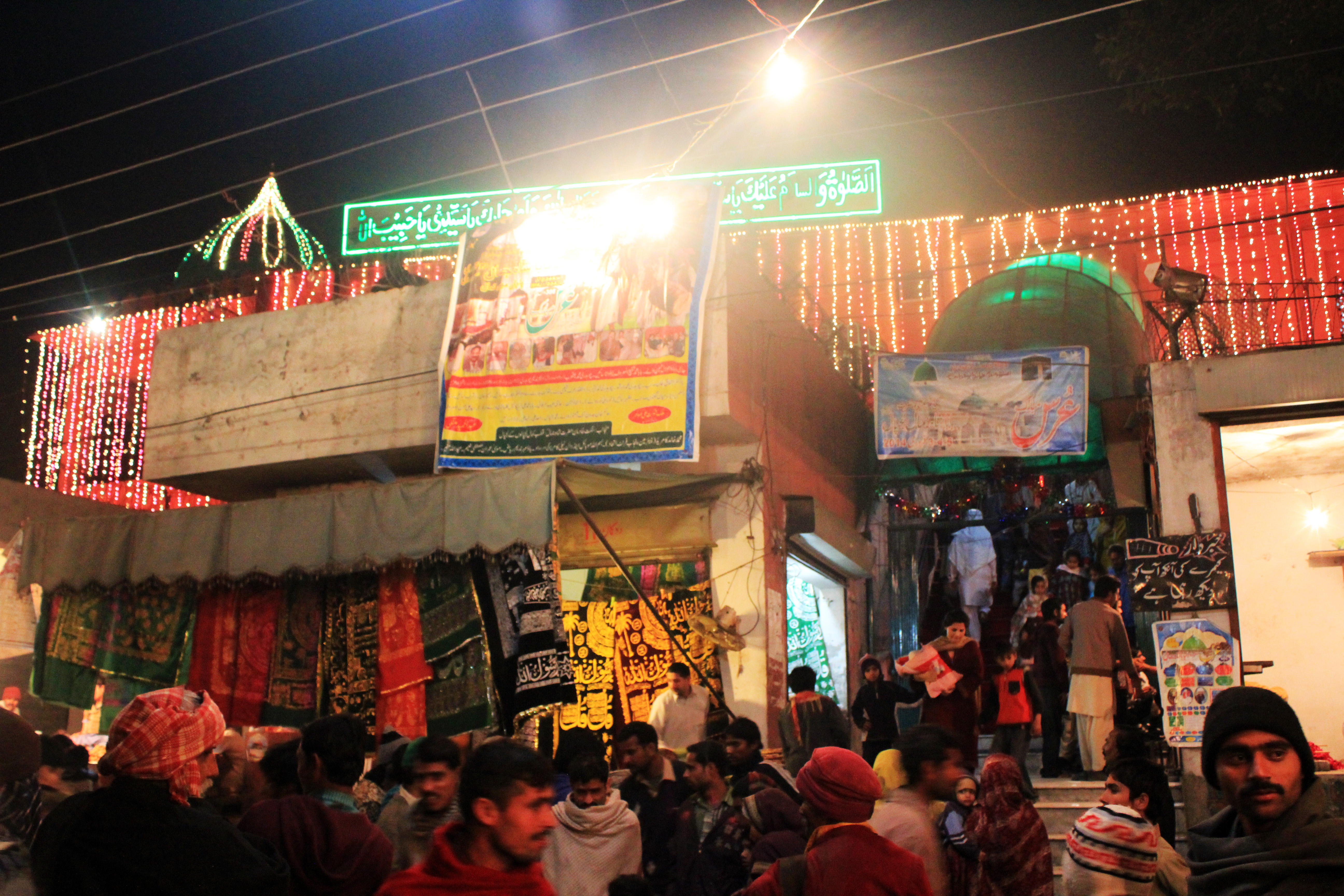 Tomb of Shah Jamal This is a photo of a monument in Pakistan identified as the PB-P-112